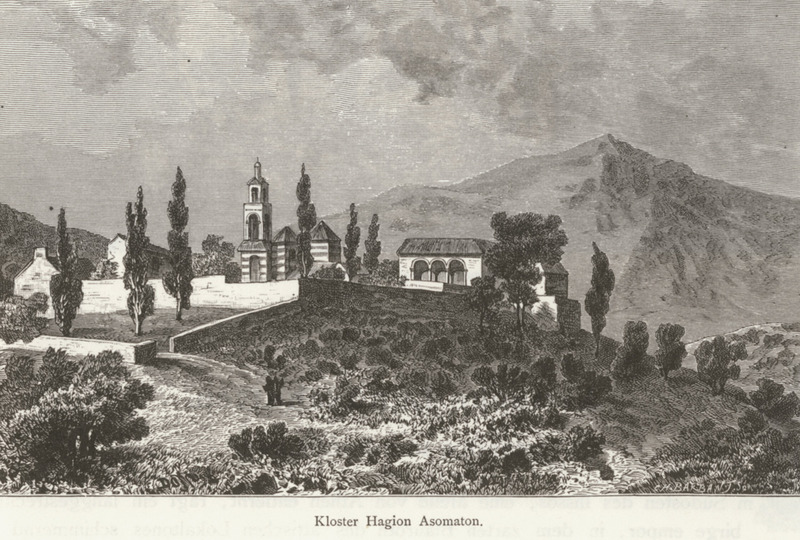 Amand Schweiger von Lerchenfeld. Griechenland in Wort und Bild, Eine Schilderung des hellenischen Konigreiches, Leipzig, Heinrich Schmidt & Carl Günther, 1887